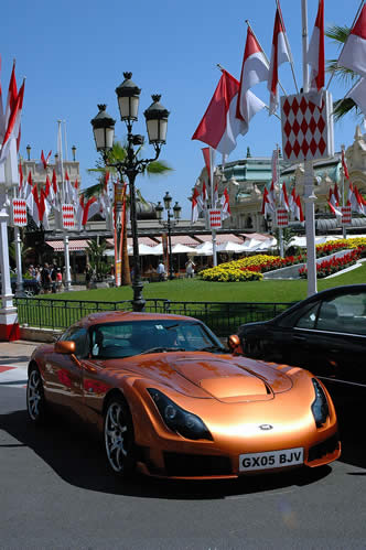 Bonne Route, Jo Howard, TVR Sagaris in Casino Square